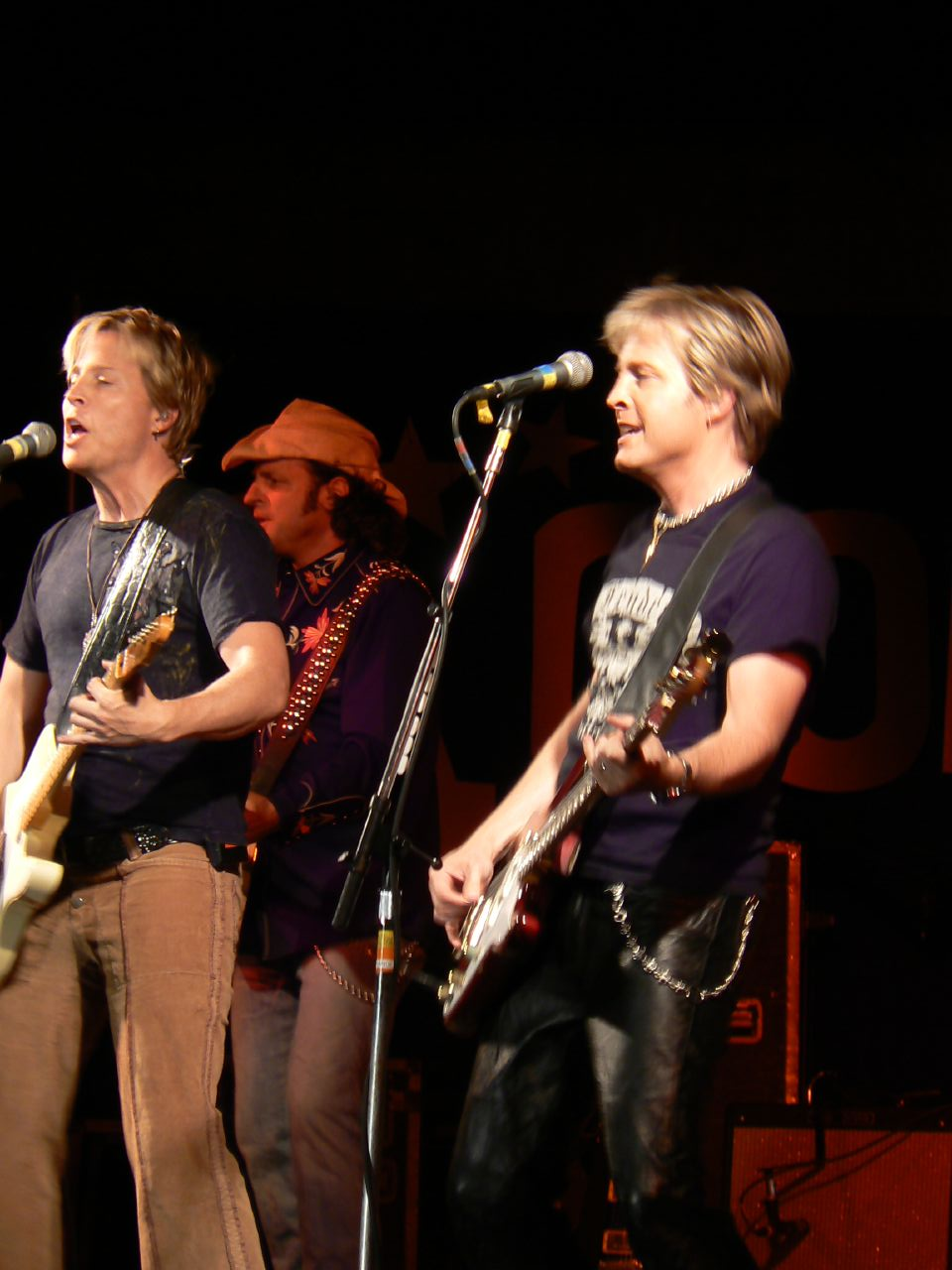 Nelson at the Gold Country Fair in Auburn, CA.